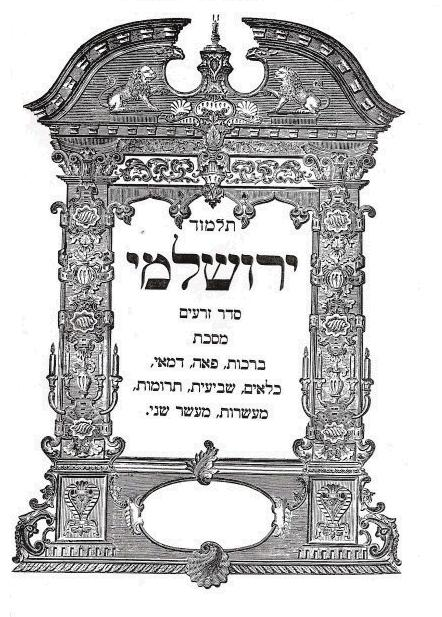 the front page of sedder zra'im from the Jerusalem Talmud